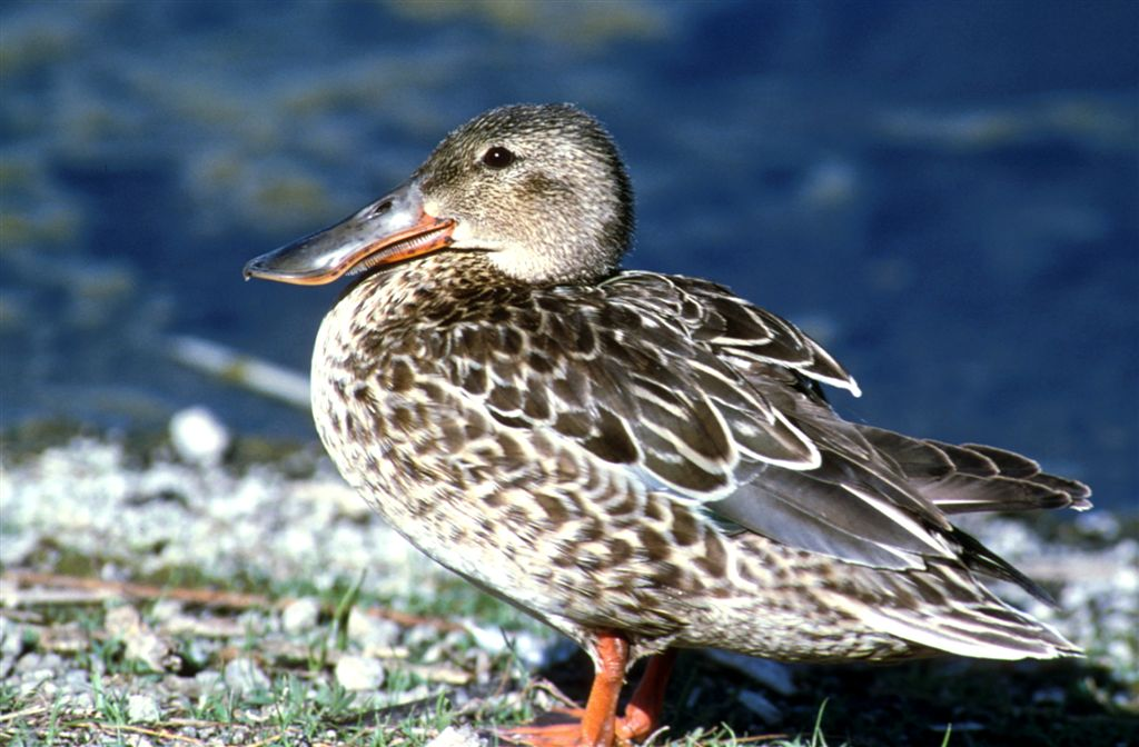 Female Northern Shoveler